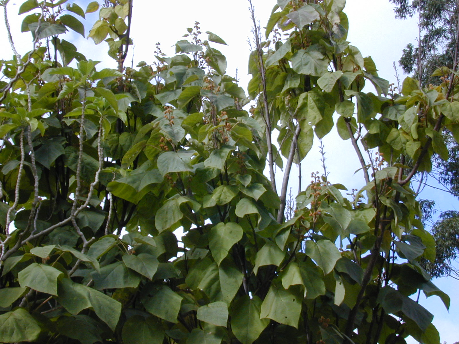 Dombeya x cayeuxii (leaves fruit). Location: Maui, Piiholo